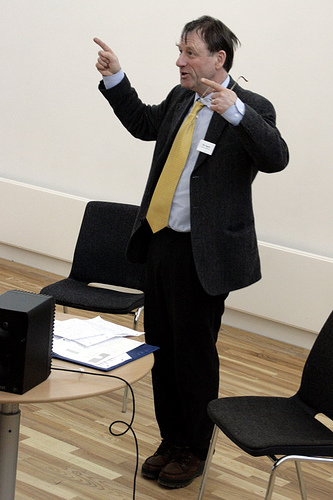 Tim Ingold, anthropologist from the United Kingdom, giving a speech about the kingdom of rats at the University of the Sunshine Coast in 2003 (b. 1948)